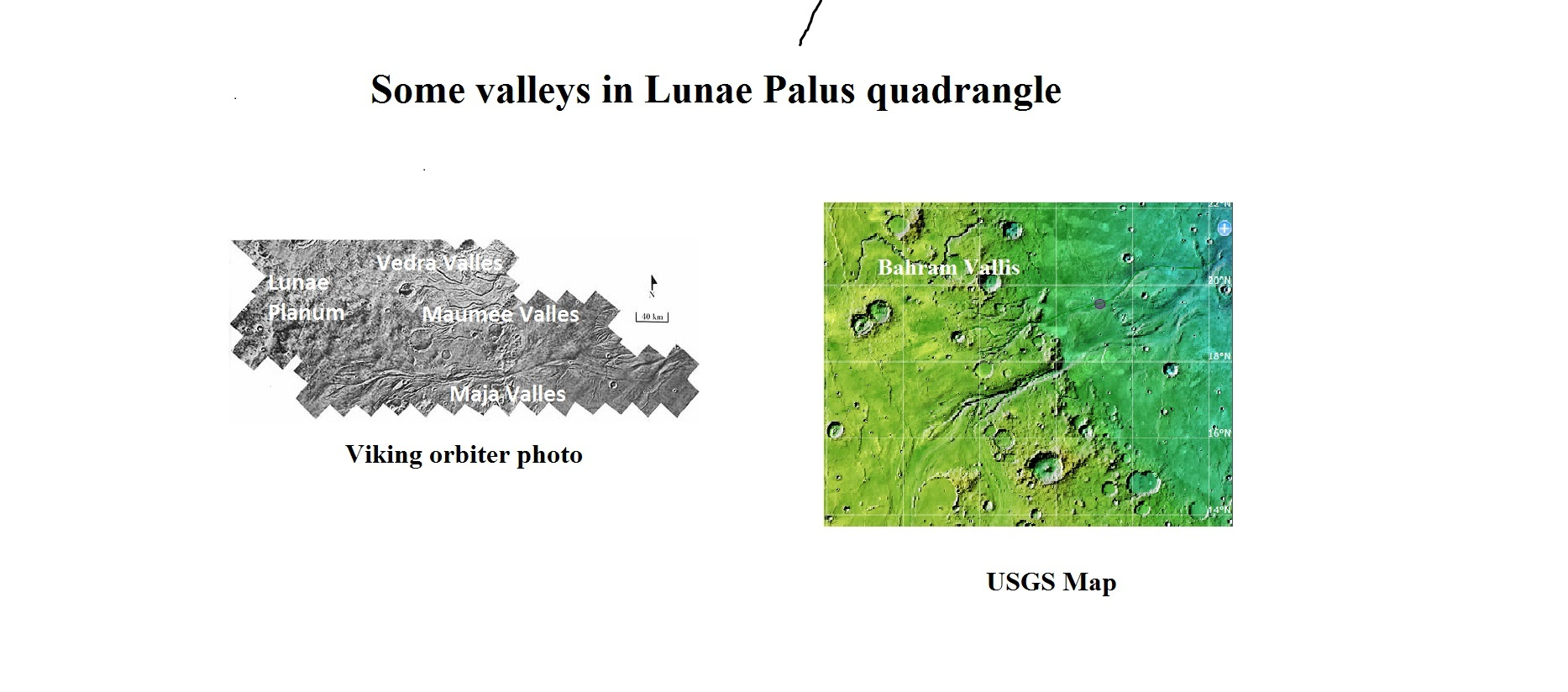 Three valleys, Vedra Valles, Maumee Valles, and Maja Valles as seen by Viking. Location is 18 N and 55 W. Note: the feature labels for Vedra Valles, Maumee Valles and Maja Valles are misspelled in this image. Note: I am trying to upload an improved version of the original picture.